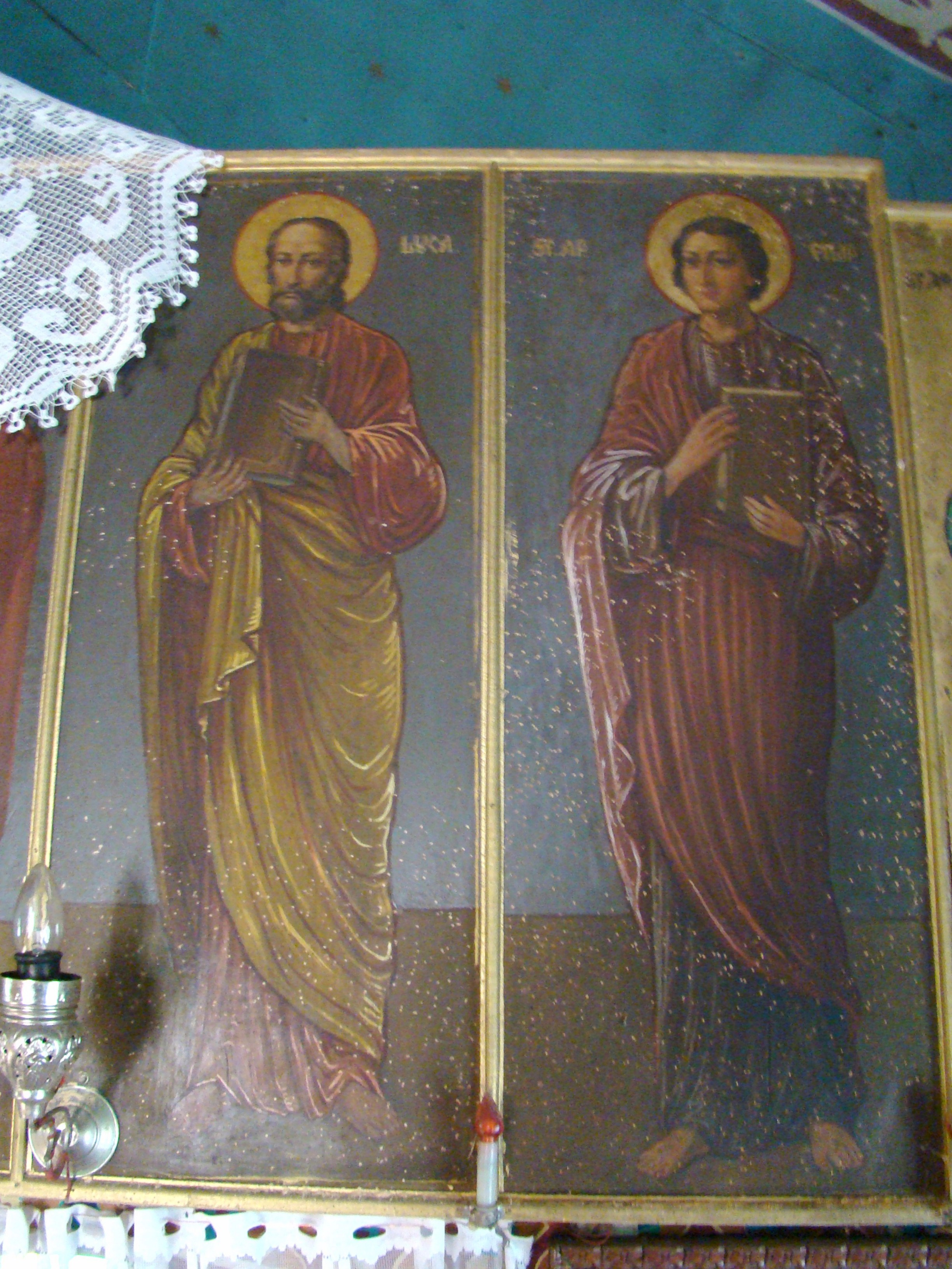 Wooden church in Valea Mare, Arad county, Romania